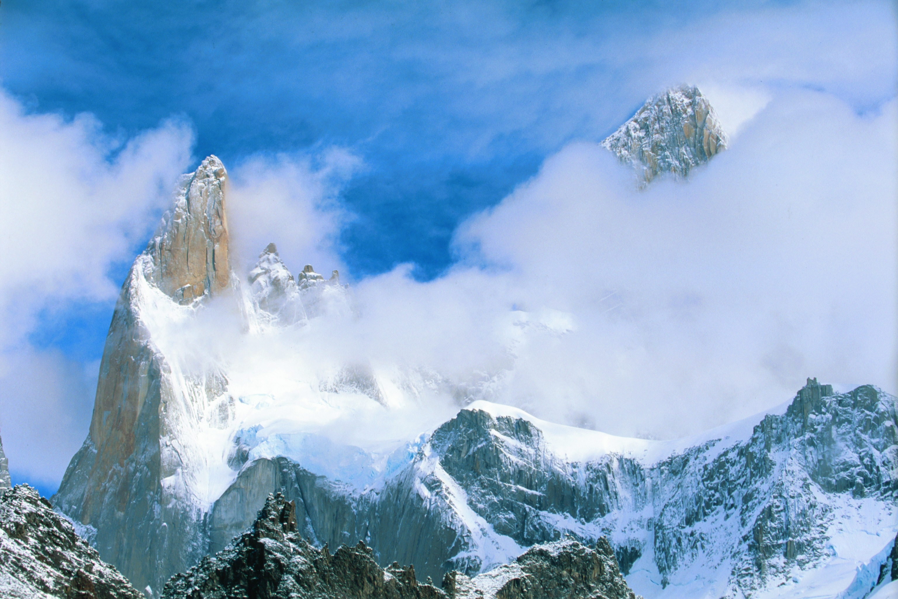 Mount Fitzroy (Cerro Chaltén), Argentina - Photographers Comment: "I hiked up to the viewpoint whilst it was still cloudy and snowing lightly. I couldn't see the mountains at all. I waited for ages and then went to leave. As I walked away, I turned around for one last glance and realised the clouds were clearing. Five minutes later, it looked like this."